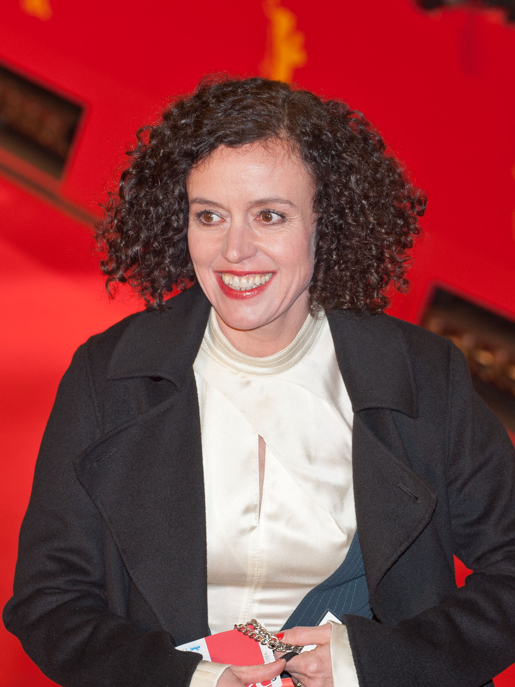 German Actress Maria Schrader at the Berlin Film Festival 2013